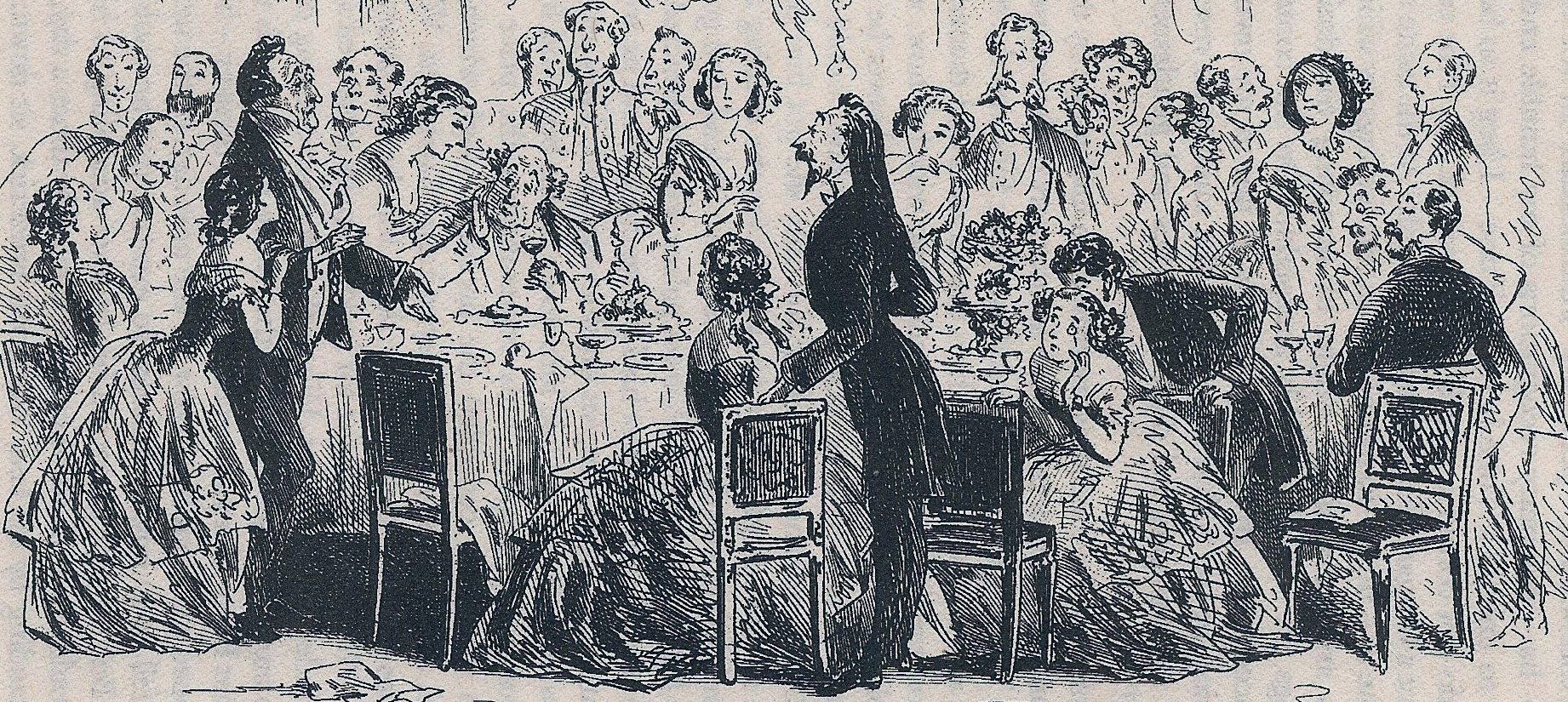 Little Dorrit, An unexpected after-dinner speech, by Phiz